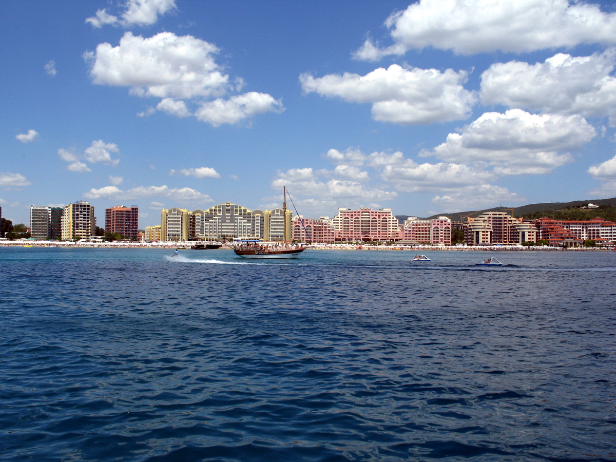 Sanny beach. Foto by Victor Belousov.